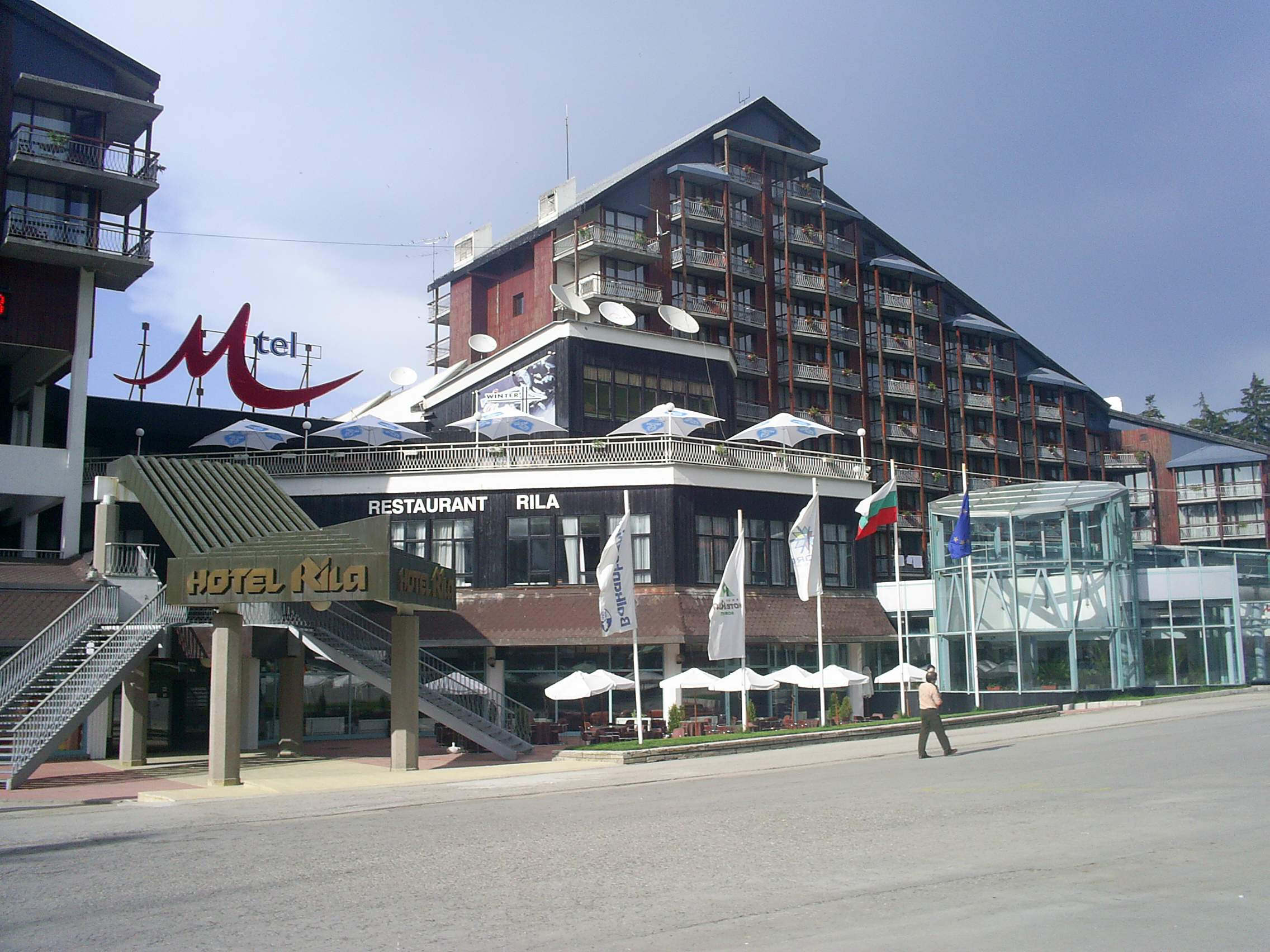 Borovets, resort in Bulgaria